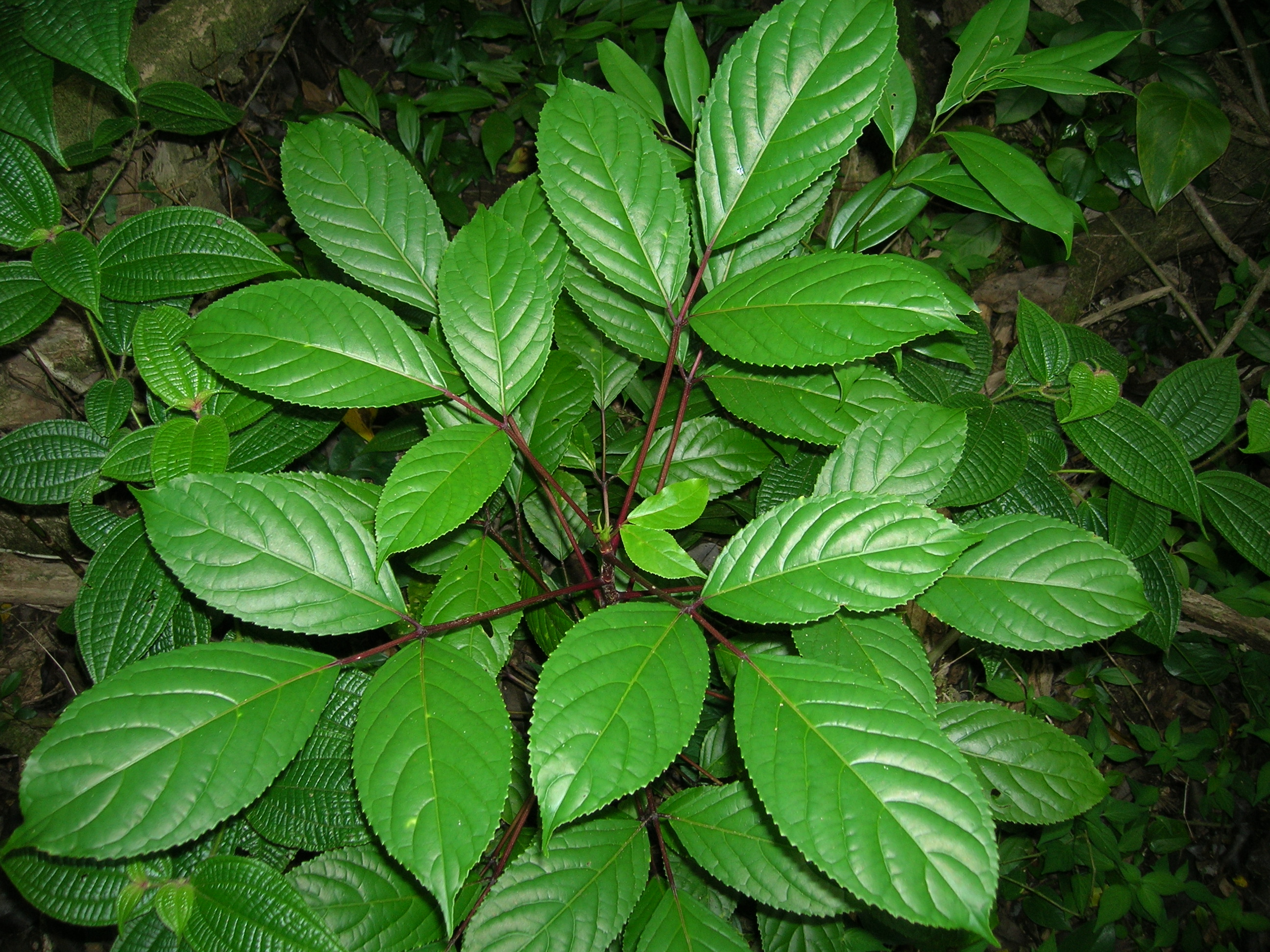 Bischofia javanica (leaves). Location: Oahu, Nuuanu